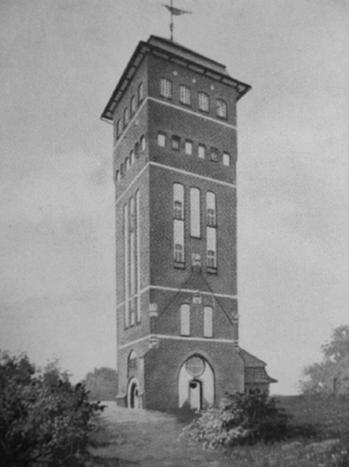 Wasserturm, Georgenswalde / Otradnoje (1909, Fisher)